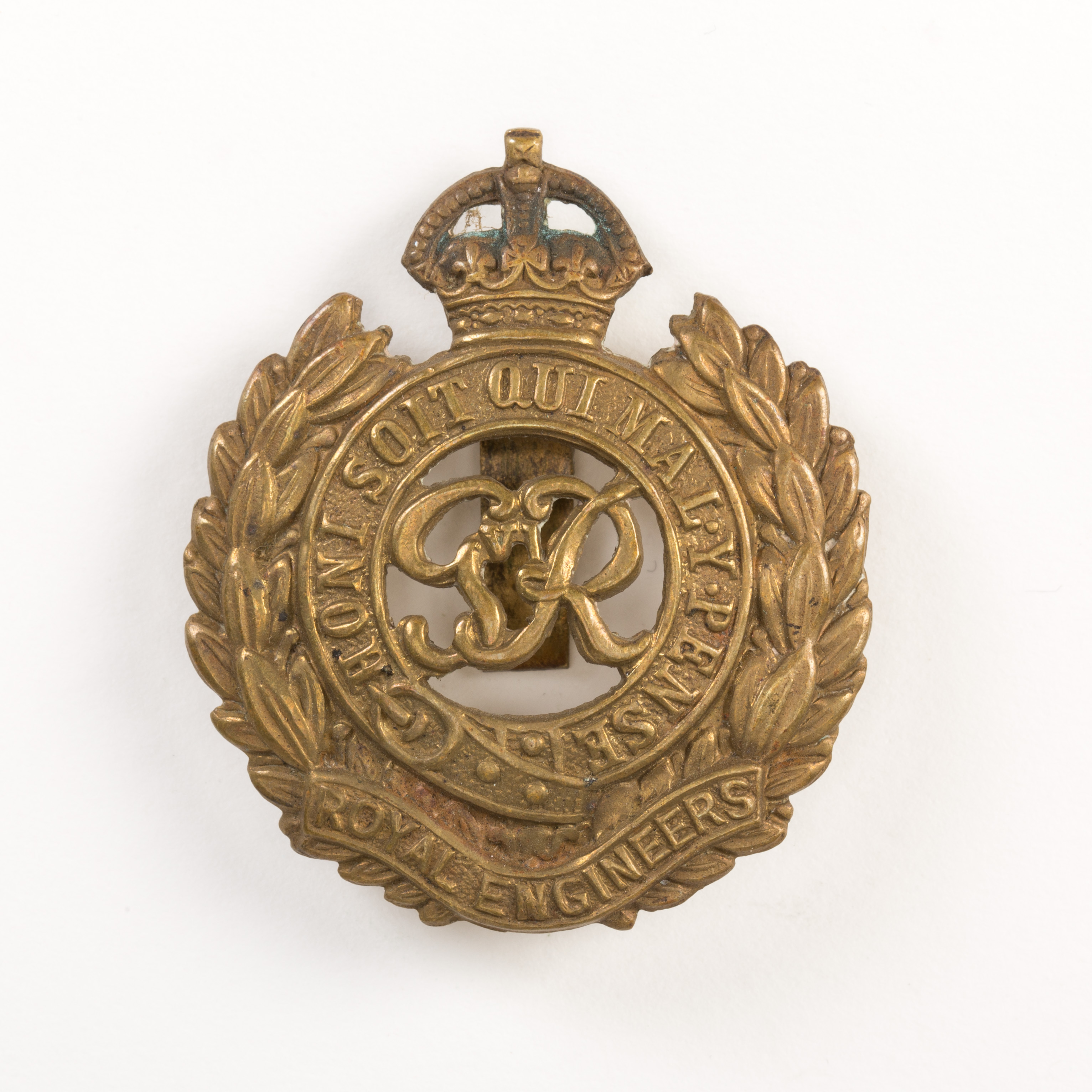 Badge, regimental. Royal Engineers cap badge The Corps of Royal Engineers, usually just called the Royal Engineers (RE), and commonly known as the Sappers, is one of the corps of the British Army. It is highly regarded throughout the military, and especially the Army.